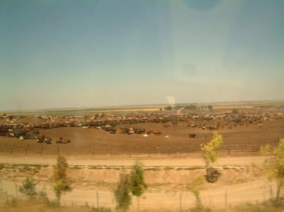 View of the Harris Ranch, Coalinga, Central California, USA